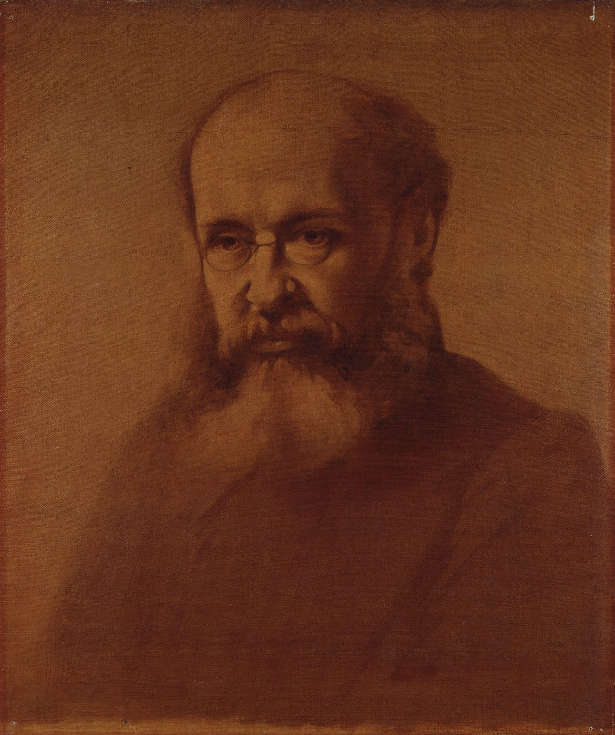 Anthony Trollope, by Samuel Laurence (died 1884). All images in this batch have been confirmed as author died before 1939 according to the official death date listed by the NPG.